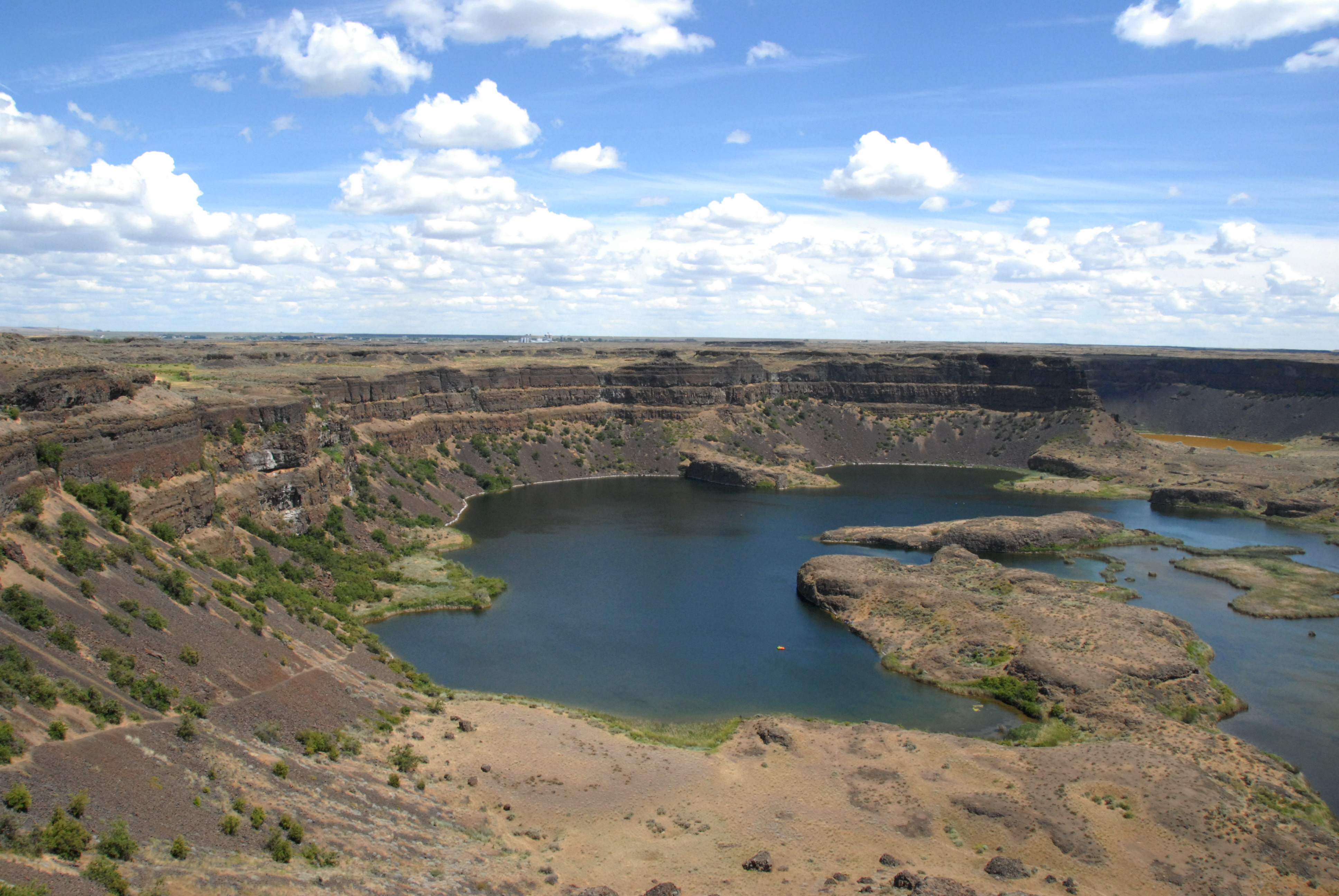 A view of Dry Falls in Washington State, USA. Photo taken June 24, 2007